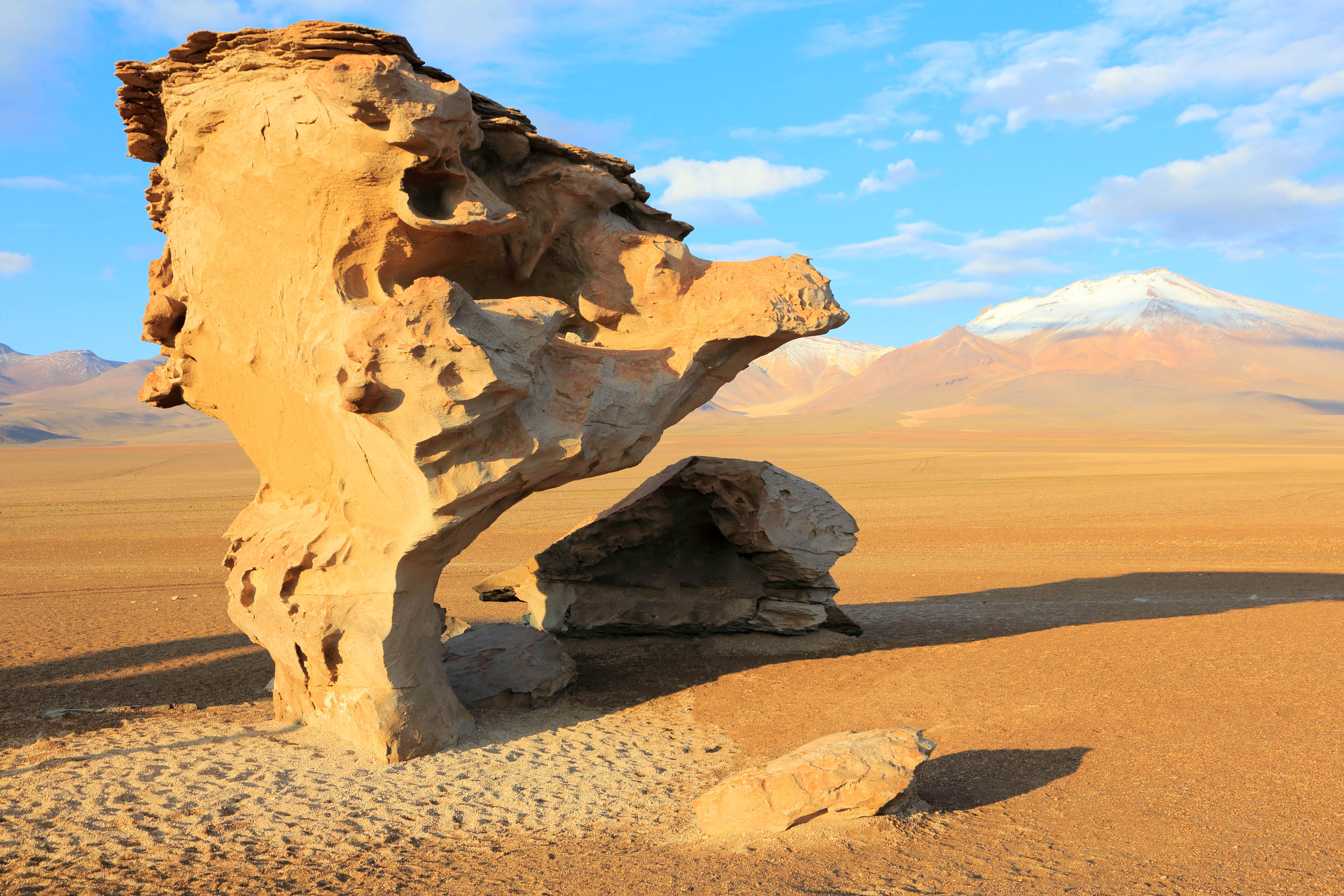 Árbol de Piedra ("stone tree") at dawn